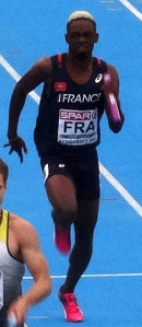 2017 European Athletics U23 Championships, 4x100m relay men final